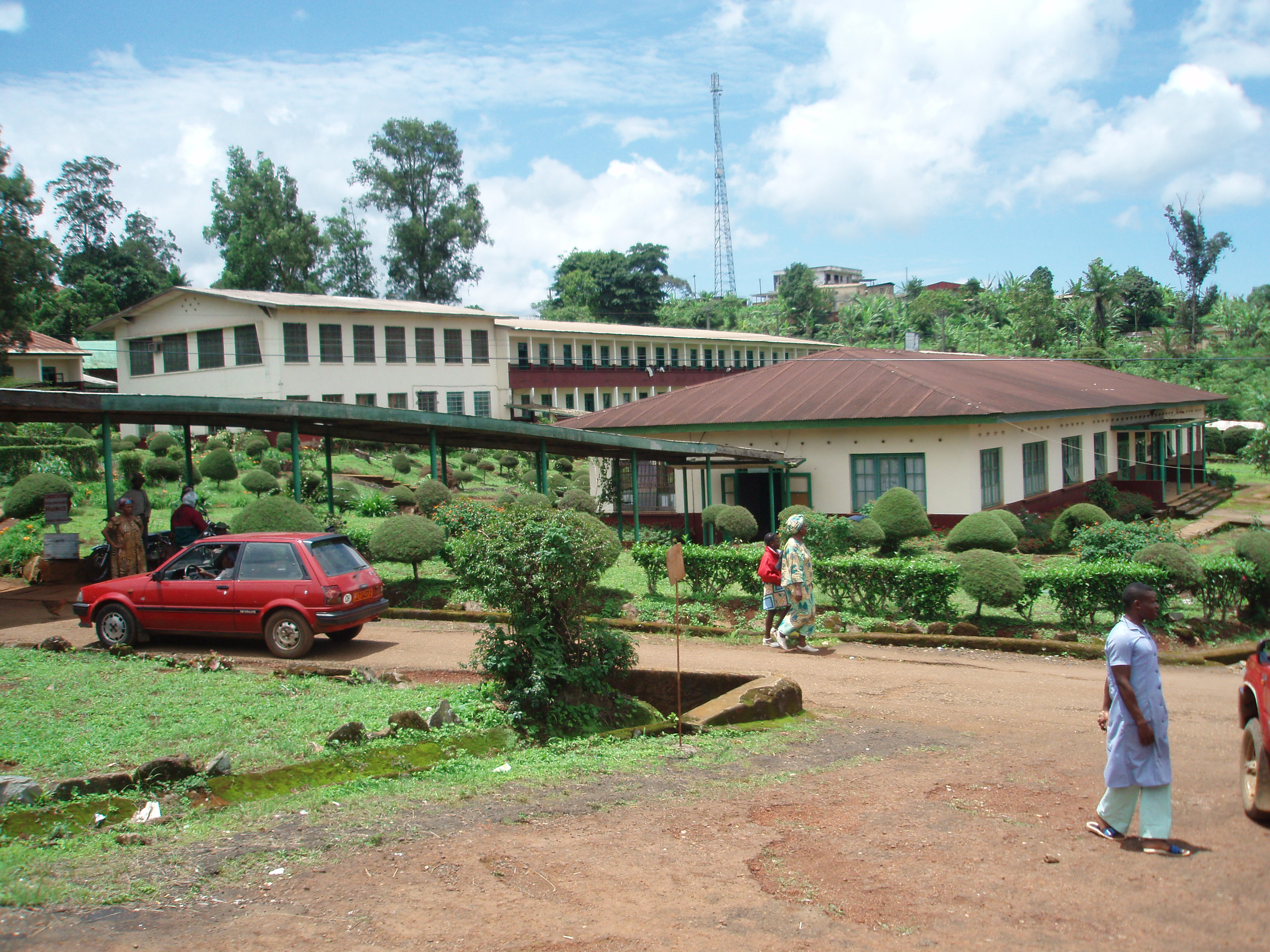 Hôpital Ad Lucem, Bafang